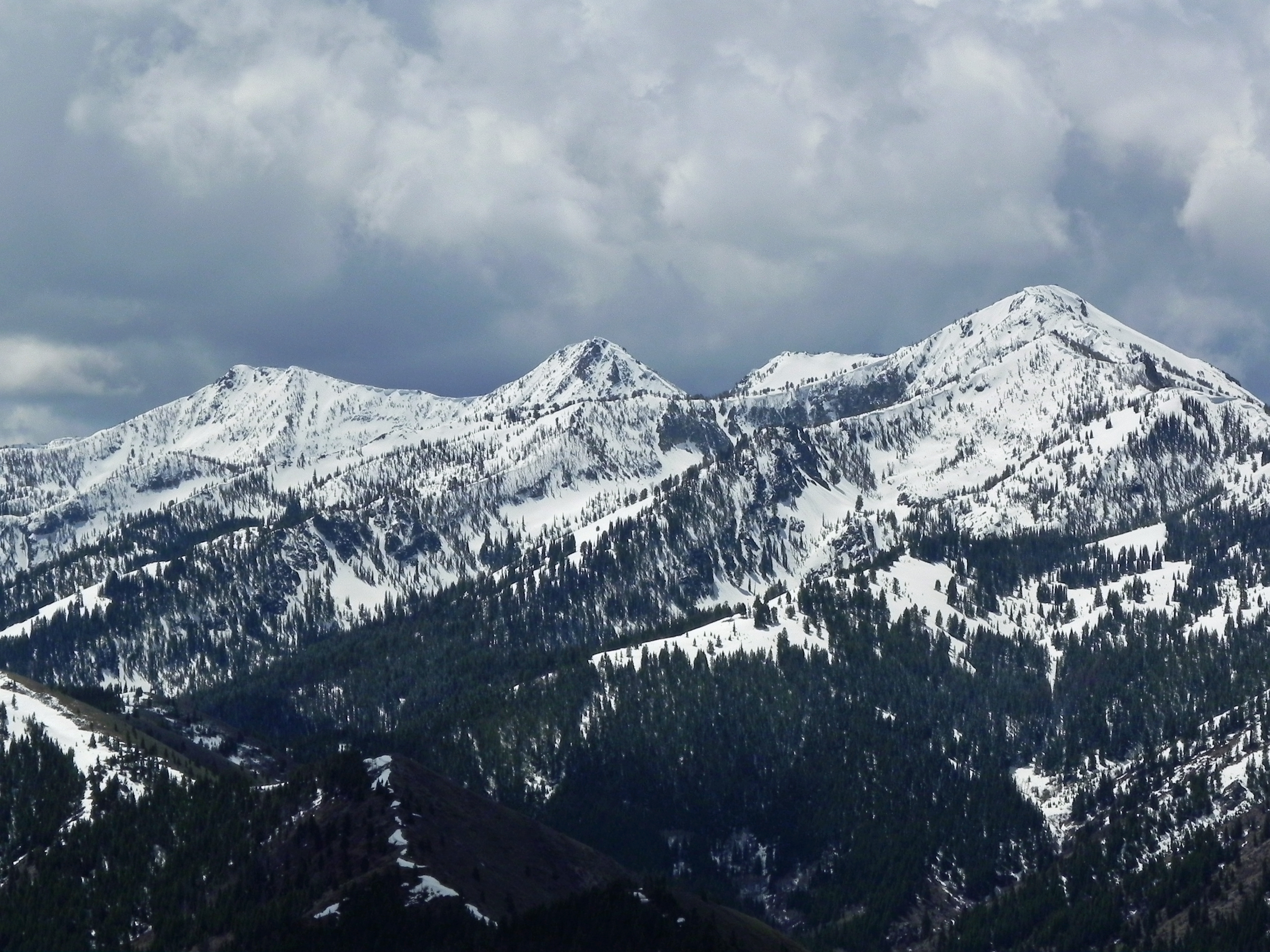 The Soldier Mountains in Camas County, Idaho in late spring from Jumbo Creek in Sawtooth National Forest